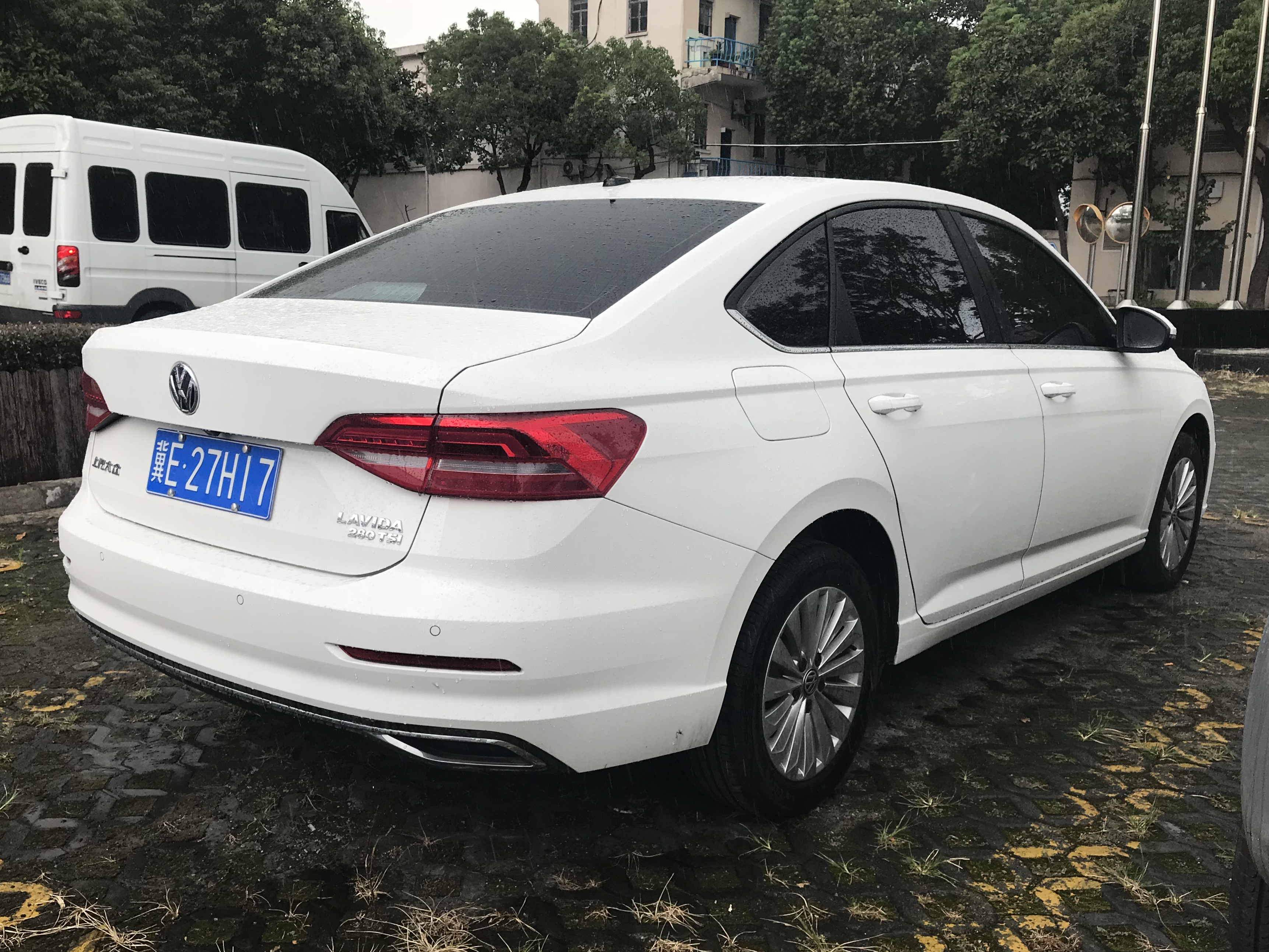 Volkswagen Lavida III